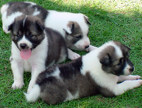 Thai Bangkaew Dog Puppies, courtesy Kyrie Bangkaew. The uploader, Agibney gives "full permission to use all of the pictures" (see the uploader's talk page).